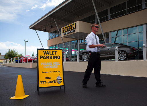 Jay's Valet Parking at Ferrari of Denver